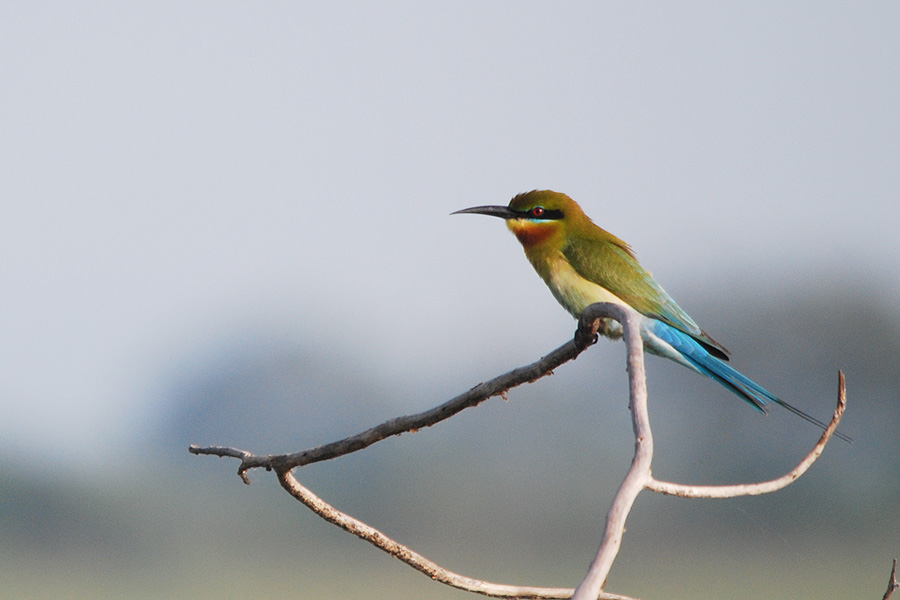 BlueTailedBeeeater-Chembarambakkam